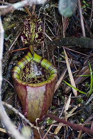 A rosette (juvenile) pitcher of Nepenthes attenboroughii demonstrates the typical, campanulate shape of this species when only a few inches high (Alastair Robinson, June 2007)